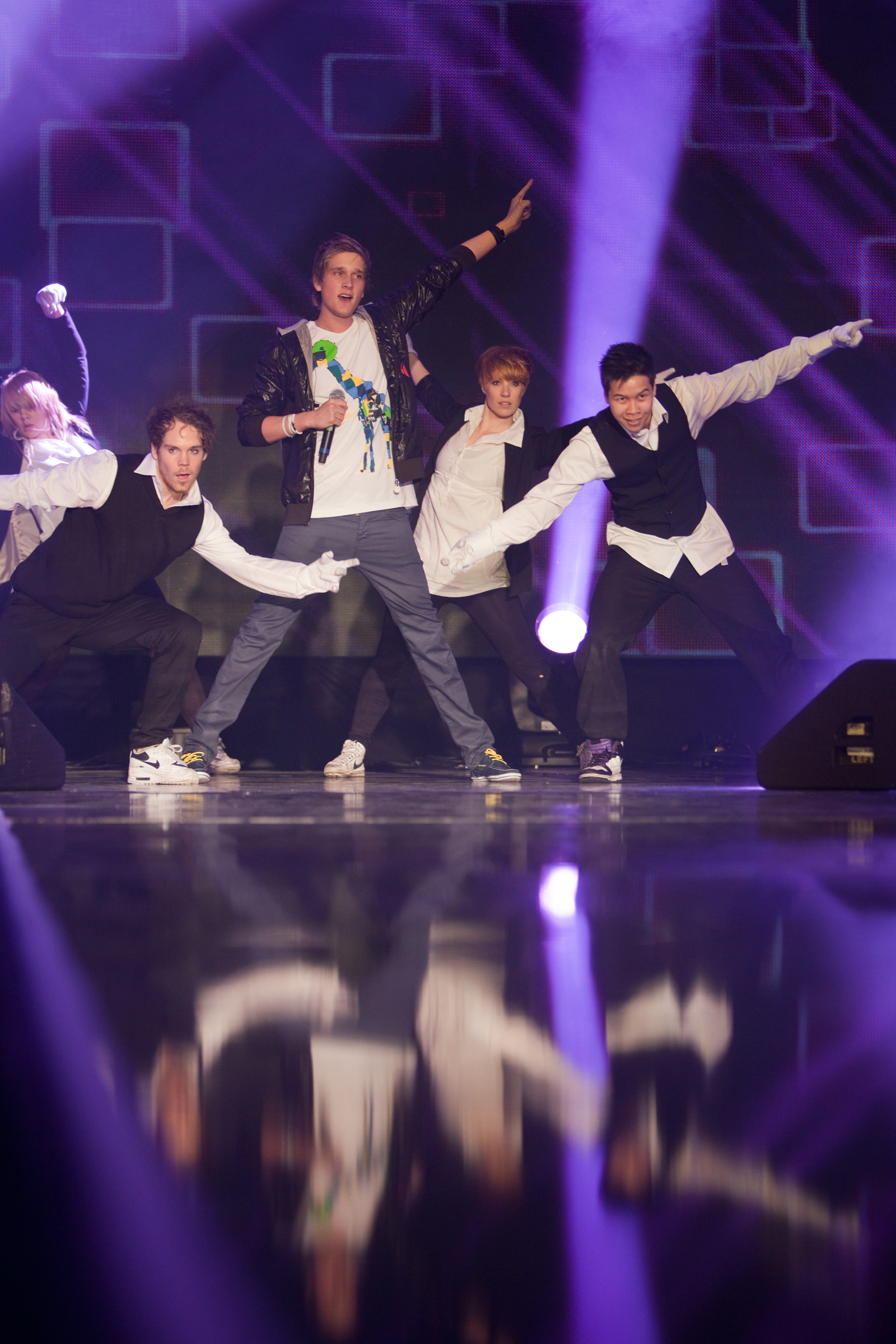 Gulltaggen is the Nordic countries and Norway´s most important conference and award show for digital marketing. This year more than 1.800 participants visited Gulltaggen. Gulltaggen is organized by the non-profit trade organization INMA / IAB Norway. Photo credits: INMA/Jarle Naustvik